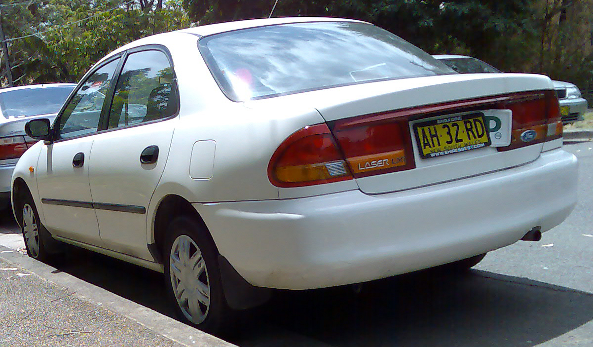 1995 Ford Laser (KJ) LXi sedan. Photographed in Gymea, New South Wales, Australia.